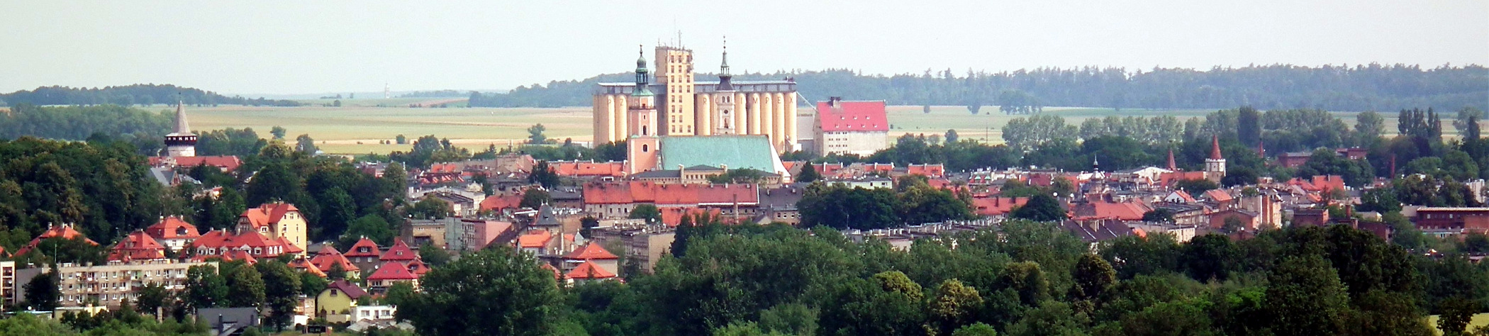 Prudnik, Poland.